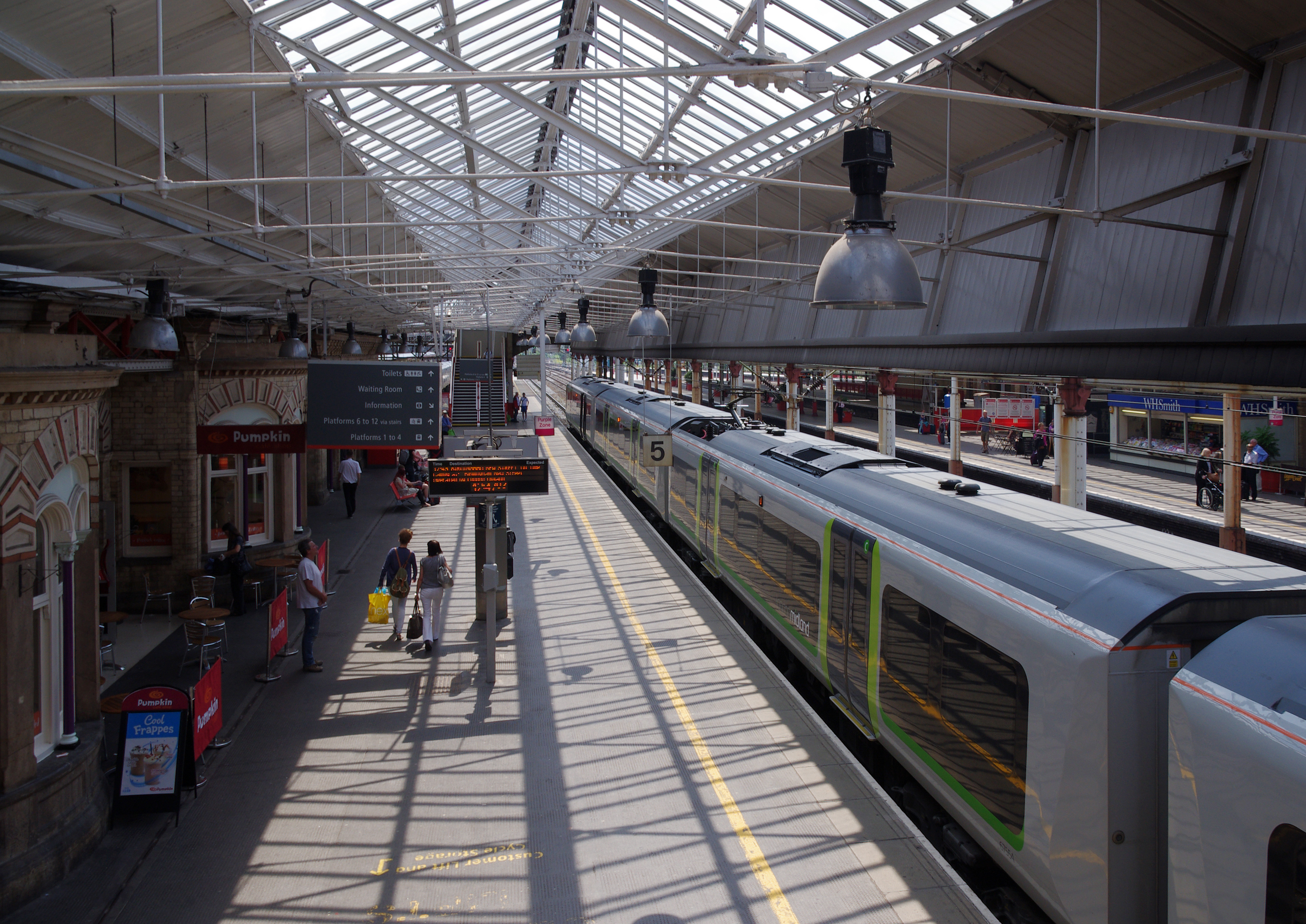 London Midland class 350 "Desiro" EMU 350254 stands at the main southbound platform of Crewe railway station, forming a Liverpool-Birmingham service.